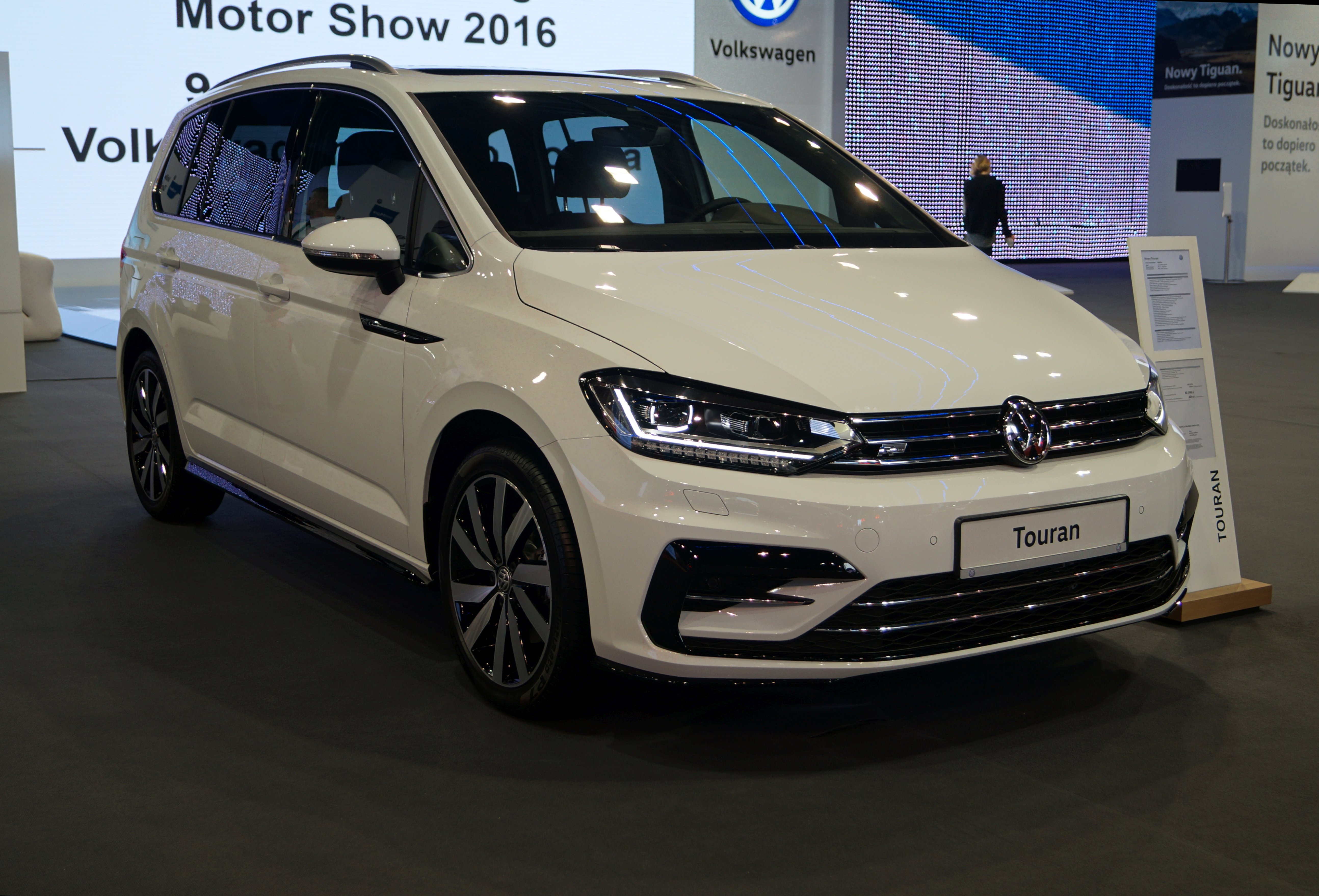 The making of this document was supported by Wikimedia Polska Association, within Wikigrant no. WG 2016-10. English | polski | +/− Volkswagen Touran na Motor Show Poznań 2016